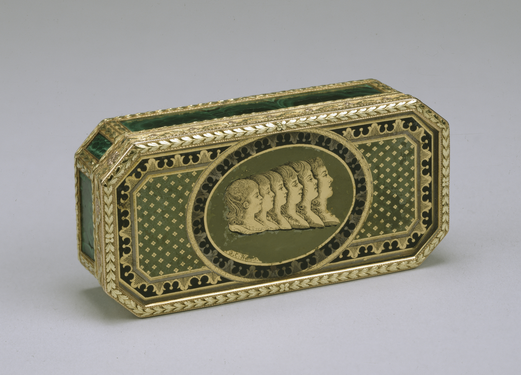 This rectangular tobacco box with chamfered corners is faced with sheets of malachite. Set in the lid is a panel of "verre églomisé," a decorative technique in which a design is worked onto the reverse side of a sheet of glass that has been gilded. silvered, or painted-gold and black being the most common color combinations. In Russia, it was a popular art form not only for small items, but also for large pieces of furniture. Although much "verre églomisé" was produced at the Imperial Glass Factory in St. Petersburg (russian: Императорский Стекольный завод; part of Кабинет Его Императорского Величества), individuals, including Grand Duchess Marie Fedorovna, also practiced this technique. Represented in profile are the six older children of Paul I (1754-1801) and his second wife, Marie Fedorovna (1759-1828). The portraits replicate an aquatint by James Walker (1748-1808[?]), an English artist appointed engraver to the Court of Catherine II in 1785. His print, in turn, is based on a miniature by Marie Fedorovna dated 1790, which she presented to her husband on September 19 of that year. The subjects are Grand Dukes and Duchesses Alexander (later Alexander I), Constantine, Alexandra, Elena, Maria, and Catherine.